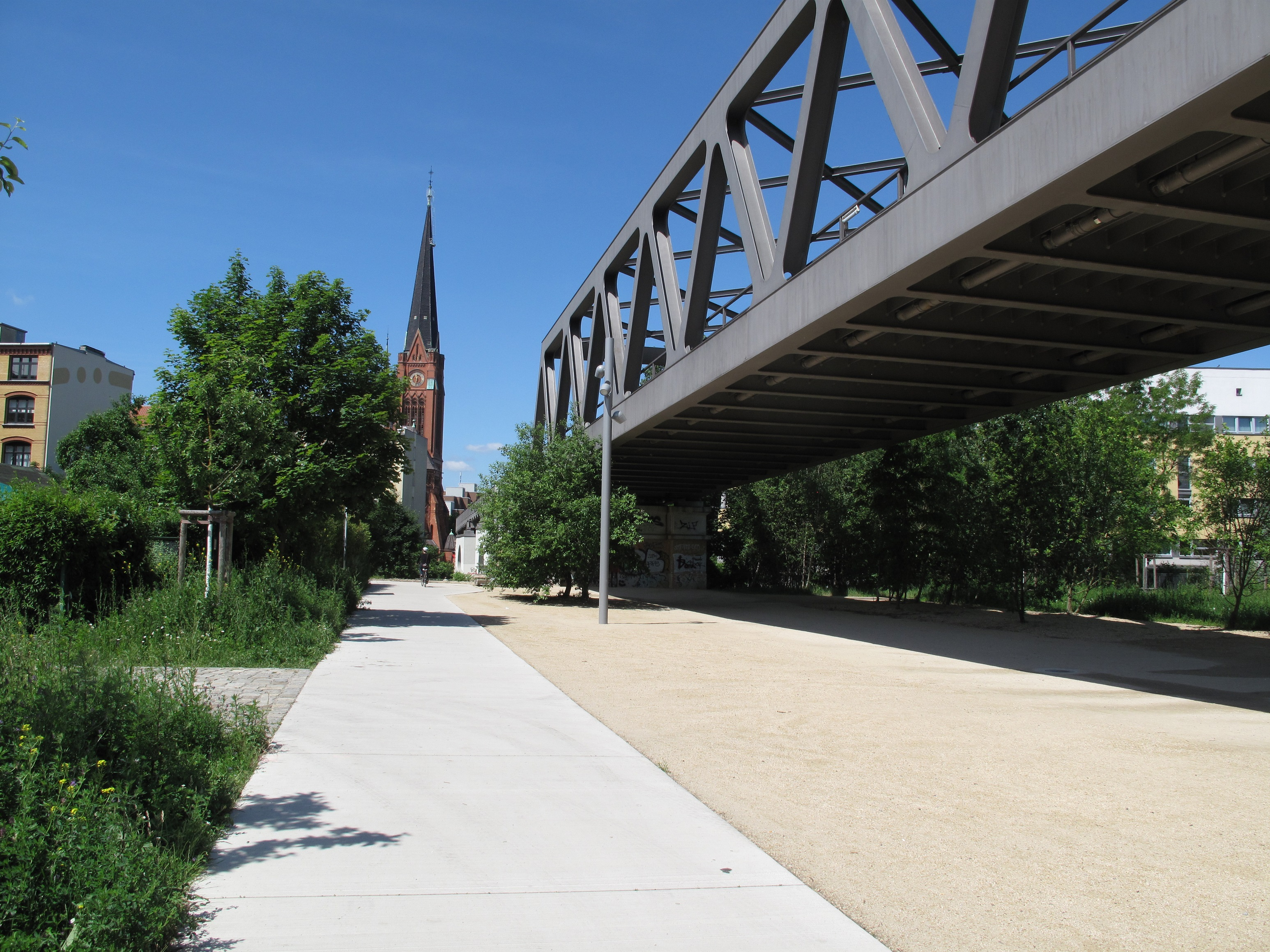 Garden Colony PDG and elevated Berlin underground line 2 at the entrance Bülowstraße in the Westpark. View to the Lutherkirche at the Dennewitzplatz. The Westpark is a 9 hectare part of the Park am Gleisdreieck in Berlin-Kreuzberg, Germany. The Westpark was opened on May 31, 2013.